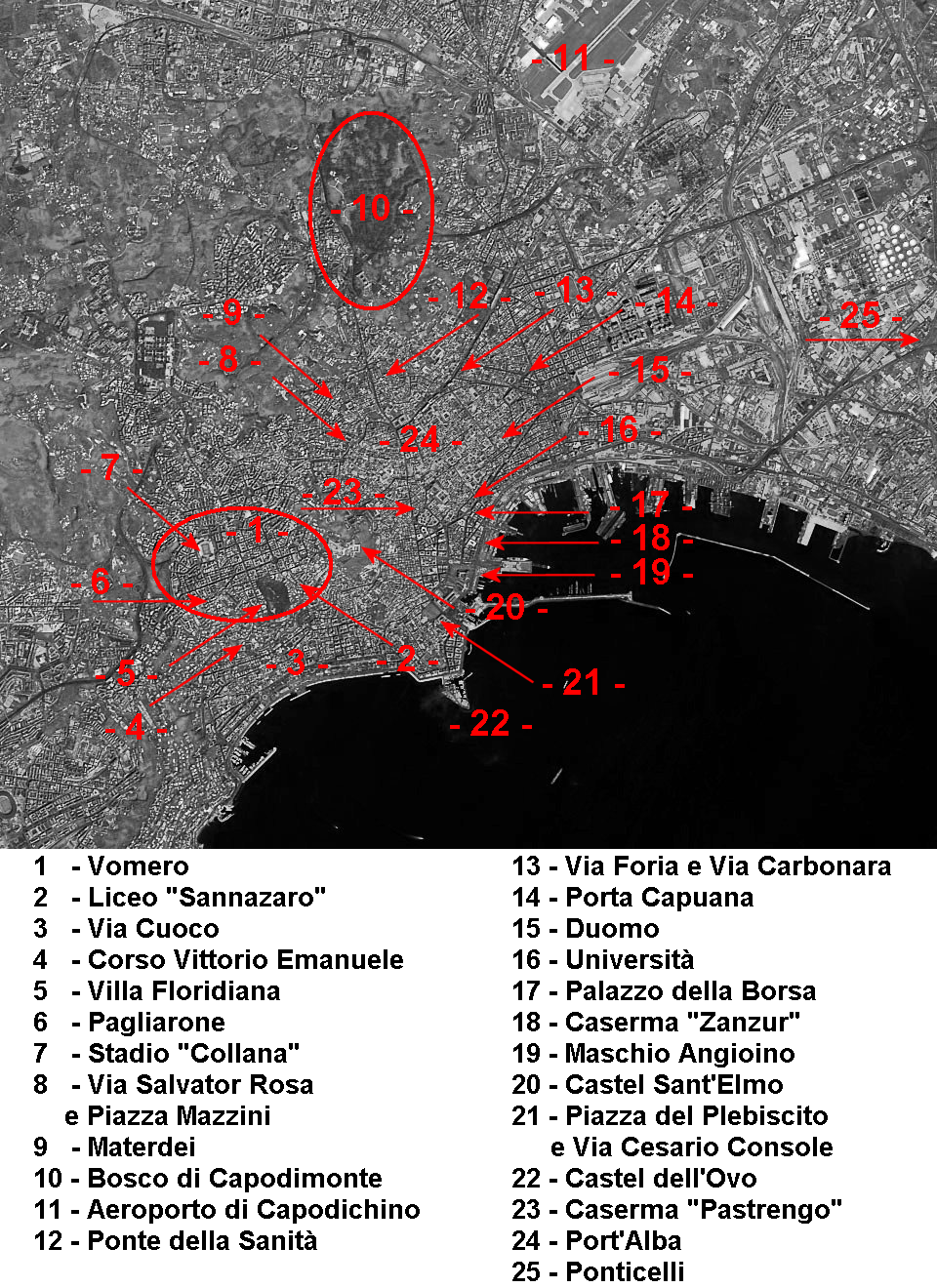 Satellite image of Naples. Original caption: satellite image taken from NASA (all work released by NASA is into public domain). Further elaboration and editing by me.